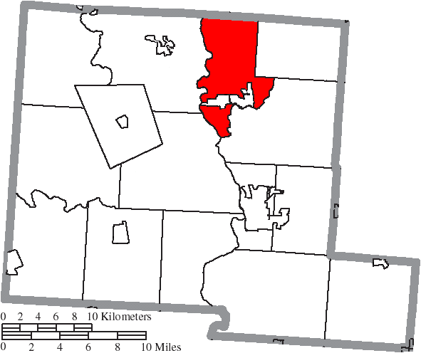 Map of the municipal and township boundaries of Pickaway County, Ohio, United States, as of the 2000 census, with the location of Harrison Township highlighted. Township borders are shown only in unincorporated areas in order to differentiate incorporated and unincorporated areas more clearly.